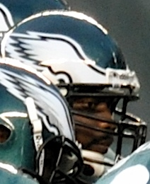 Donovan McNabb huddles with Philadelphia Eagles offensive linemen during the 2009 scrimmage.